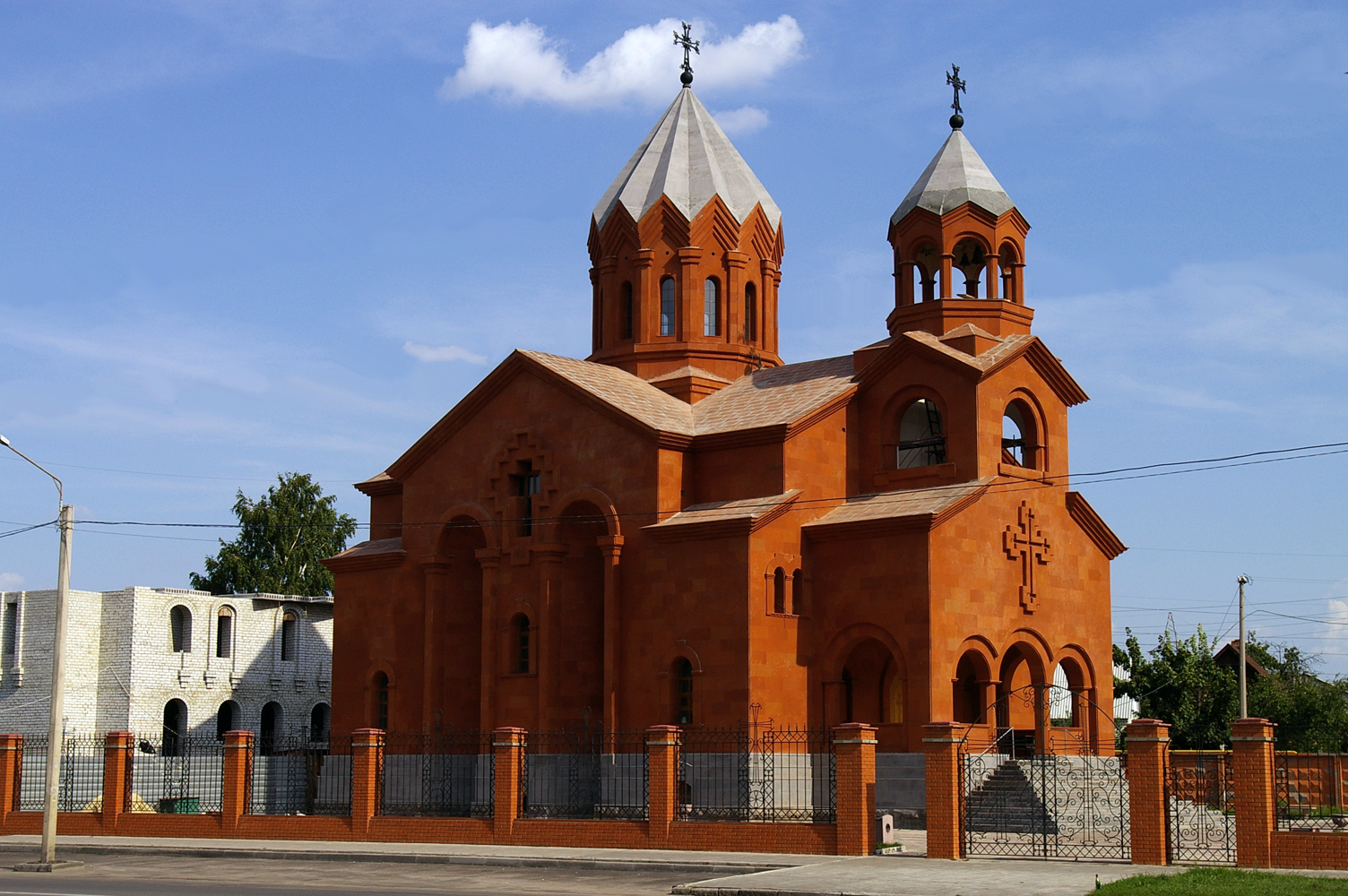 Armenian Church Surb Arutiun in Kharkov.